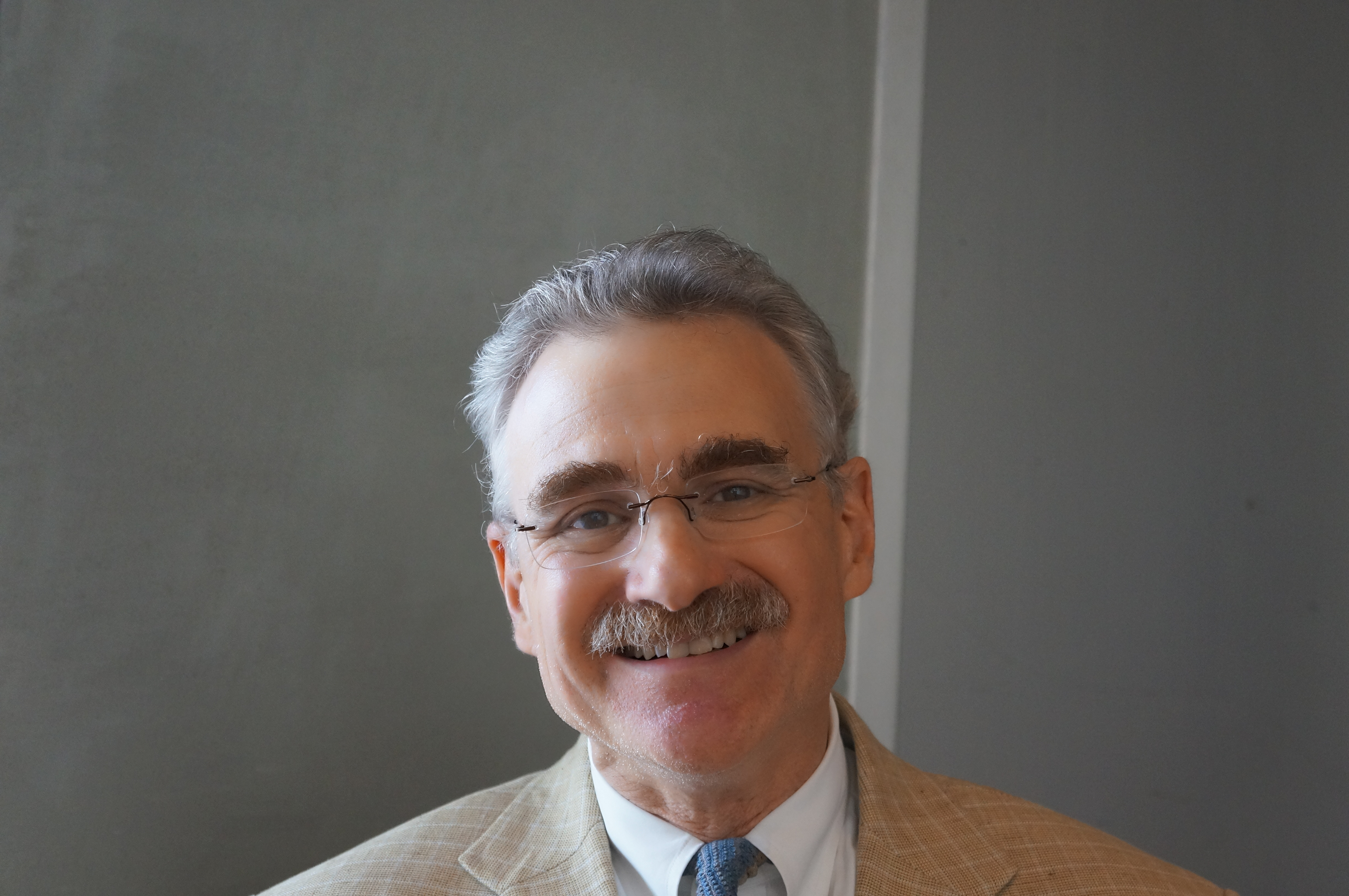 Murray Horwitz on 14 July 2013 at the Smithsonian Museum of American History discussion of the movie V for Vendeta.